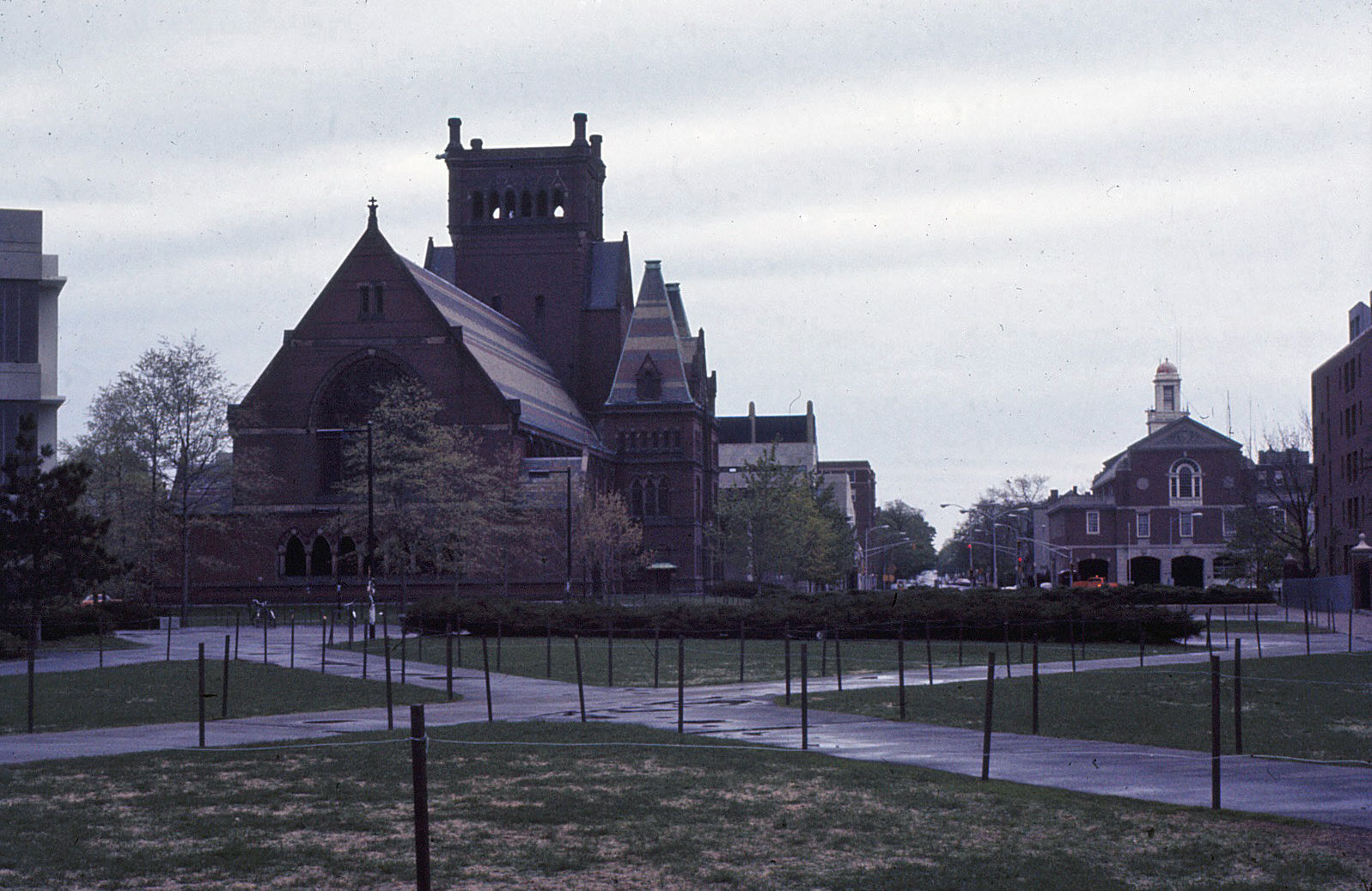 Memorial Hall at Harvard University as seen on a Sunday morning in April 1976. It shows how the tower appeared before the 1990s renovation. The Cambridge Fire Department building is on the right in the background.